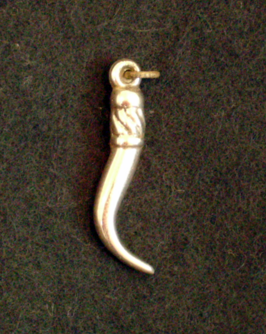 An Italian or Italian-American cornicello good luck charm.